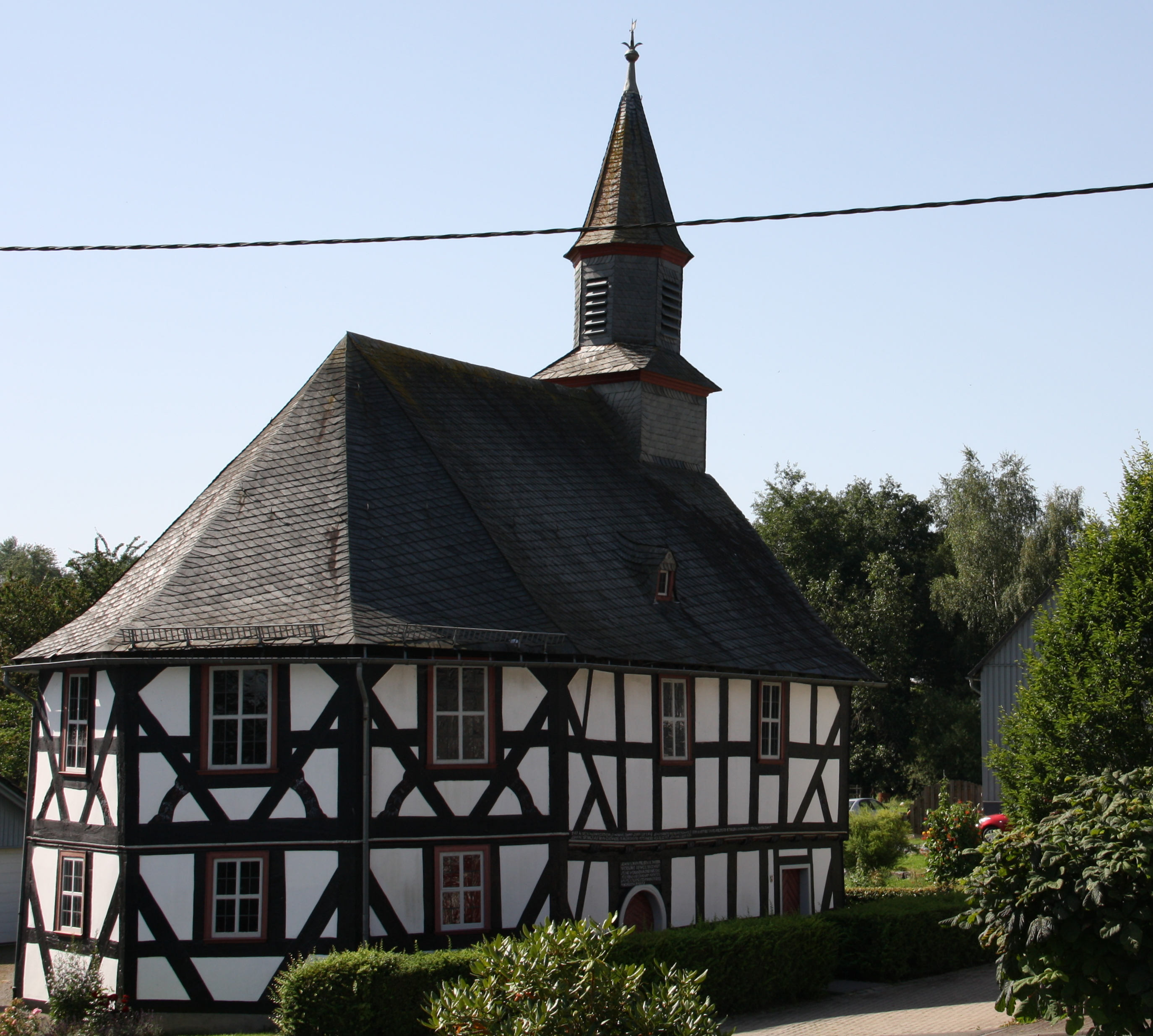 Cultural heritage monument in Bad Berleburg, Sassenhausen